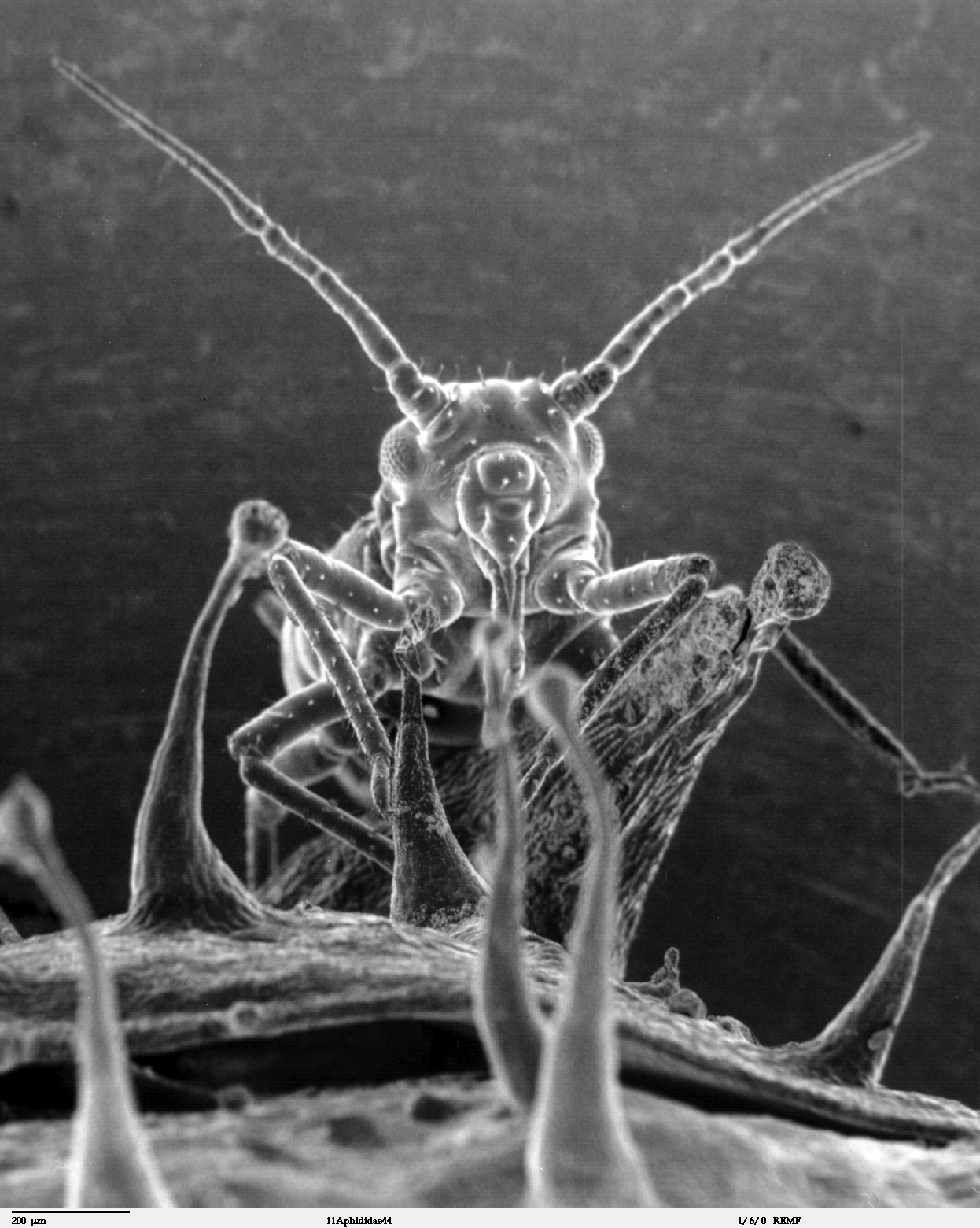 Scanning electron microscope image of an aphid on a wildflower.